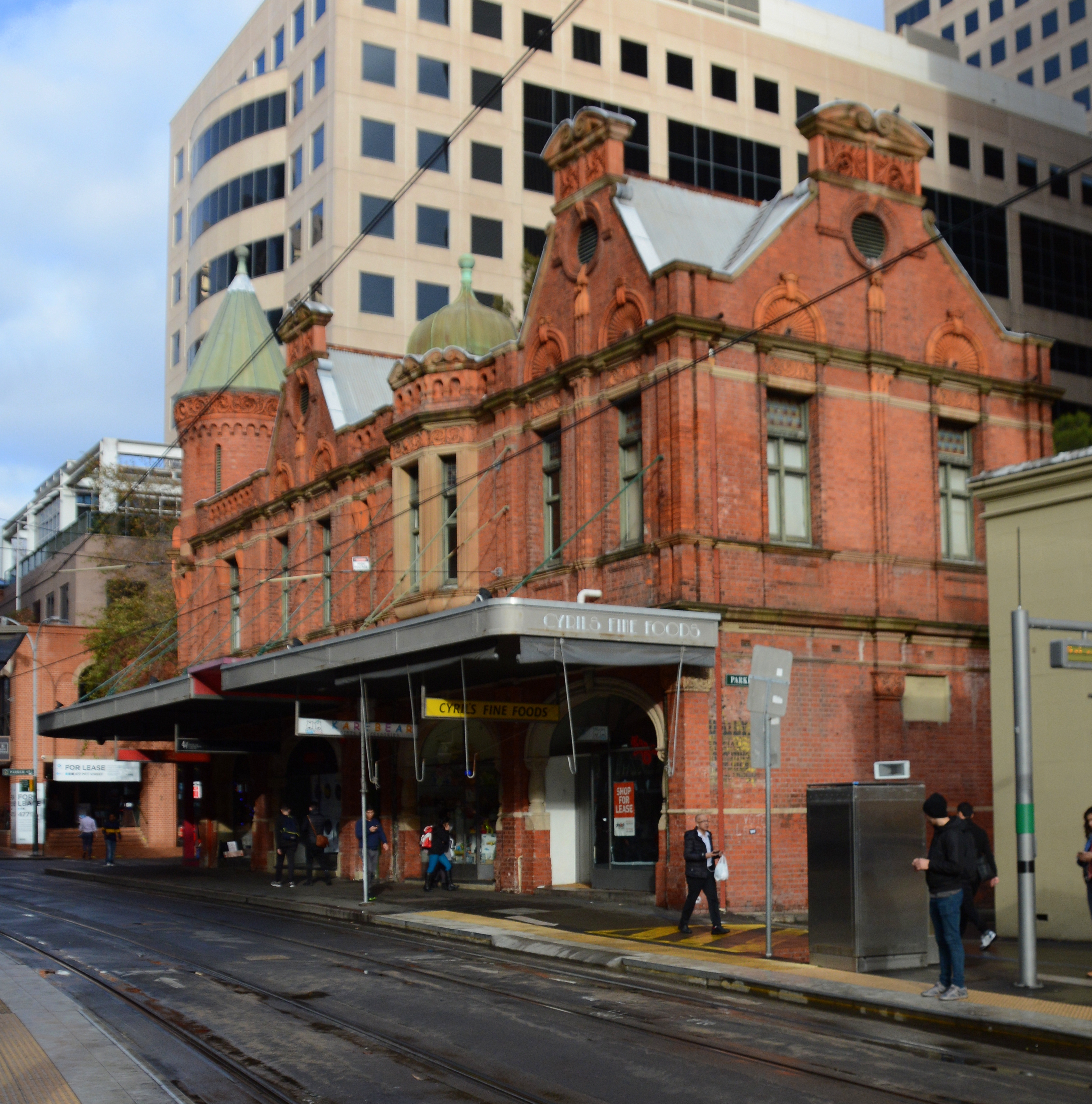 Corporation Building, Hay Street, Haymarket, Sydney (designed by George McRae)